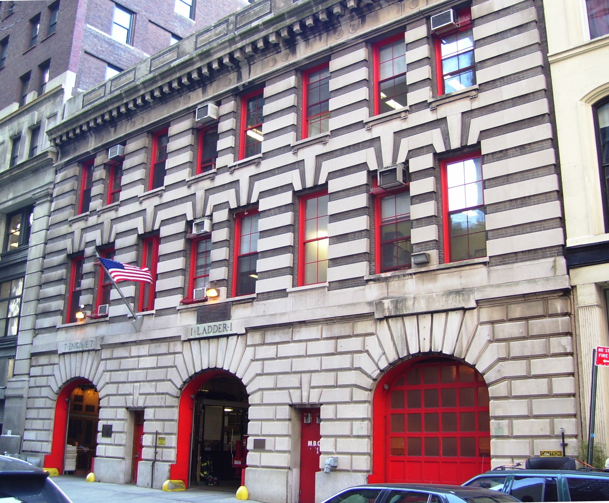 The firehouse at 100 Duane Street between Broadway and Church Street in the Tribeca neighborhood of Manhattan, New York City, was built in 1904-05 and was designed by Trowbridge & Livingston in the French Renaissance Revival style. It was originally used by Engine Company #7 and Hook & ladder Company #1, but is now used only by the latter. The building was designated a NYC landmark in 1995: "This is among the most impressive snall-scale civic structures of the time." (Source: Guide to NYC Landmarks (4th ed.))